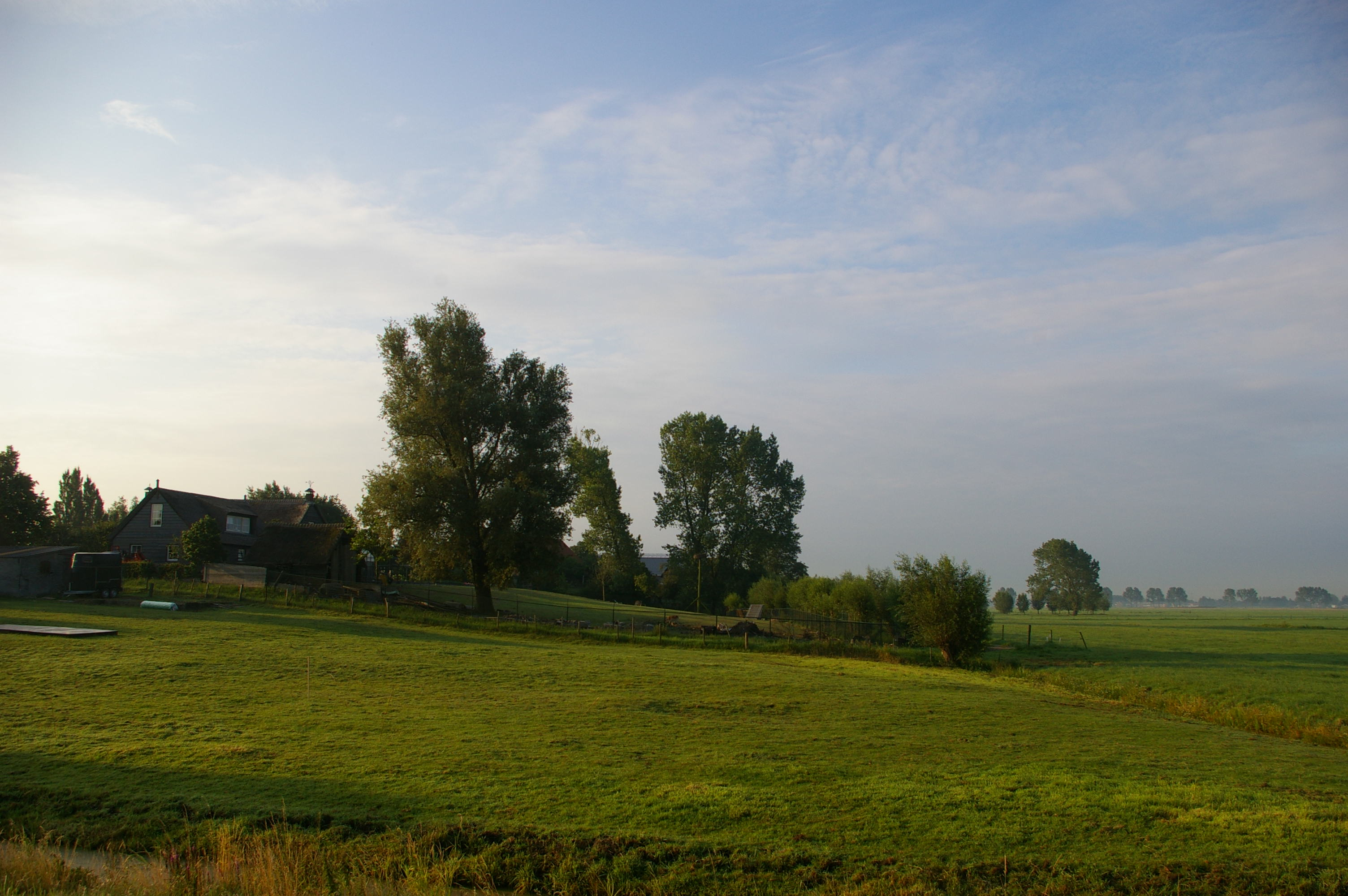 Hamlet of De Donk, municipality of Graafstroom, province of South Holland, the Netherlands.